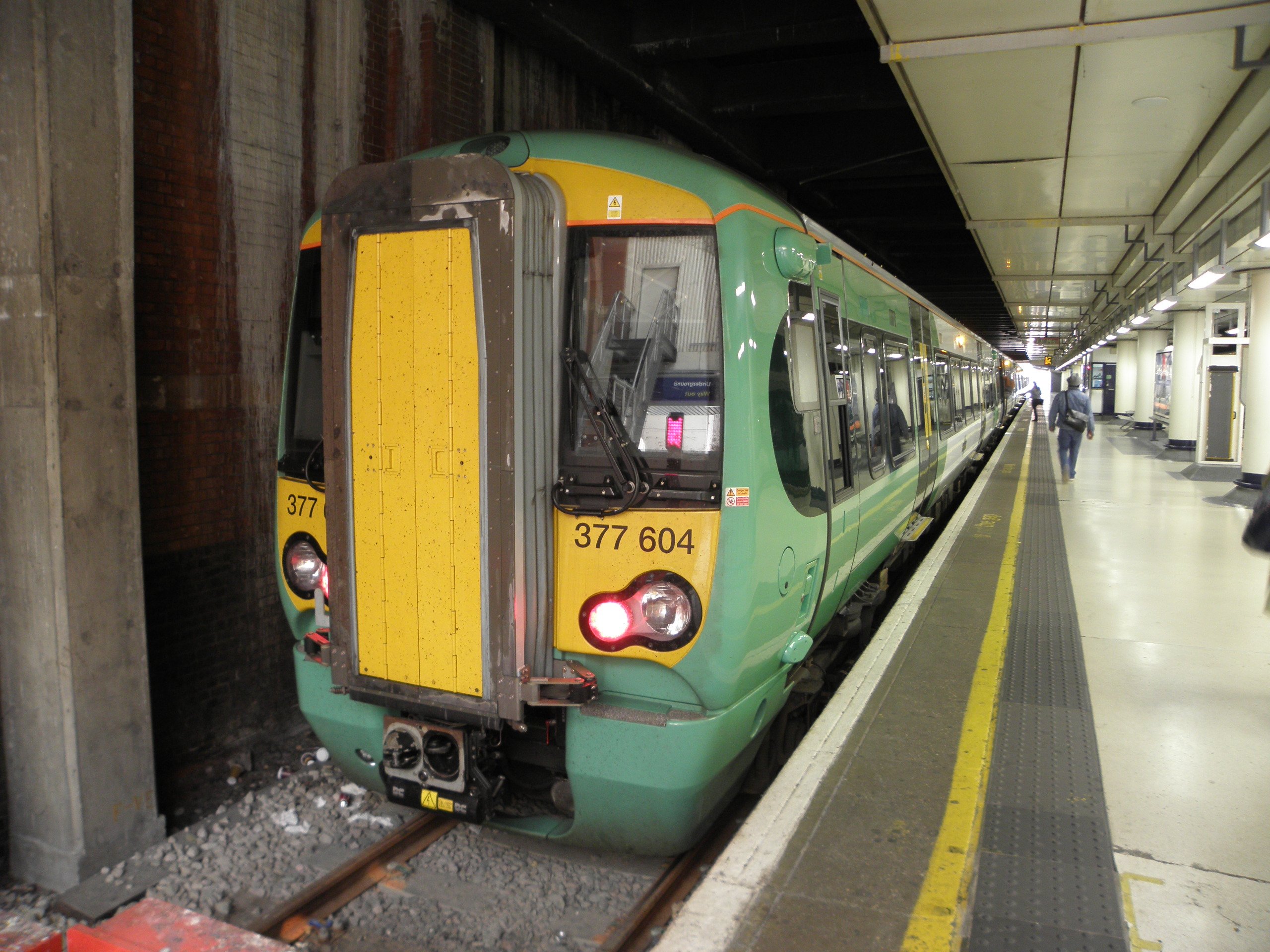 Class 377/6 unit 377604 pictured at London Victoria station about to depart with a Sutton service on 22nd June 2014